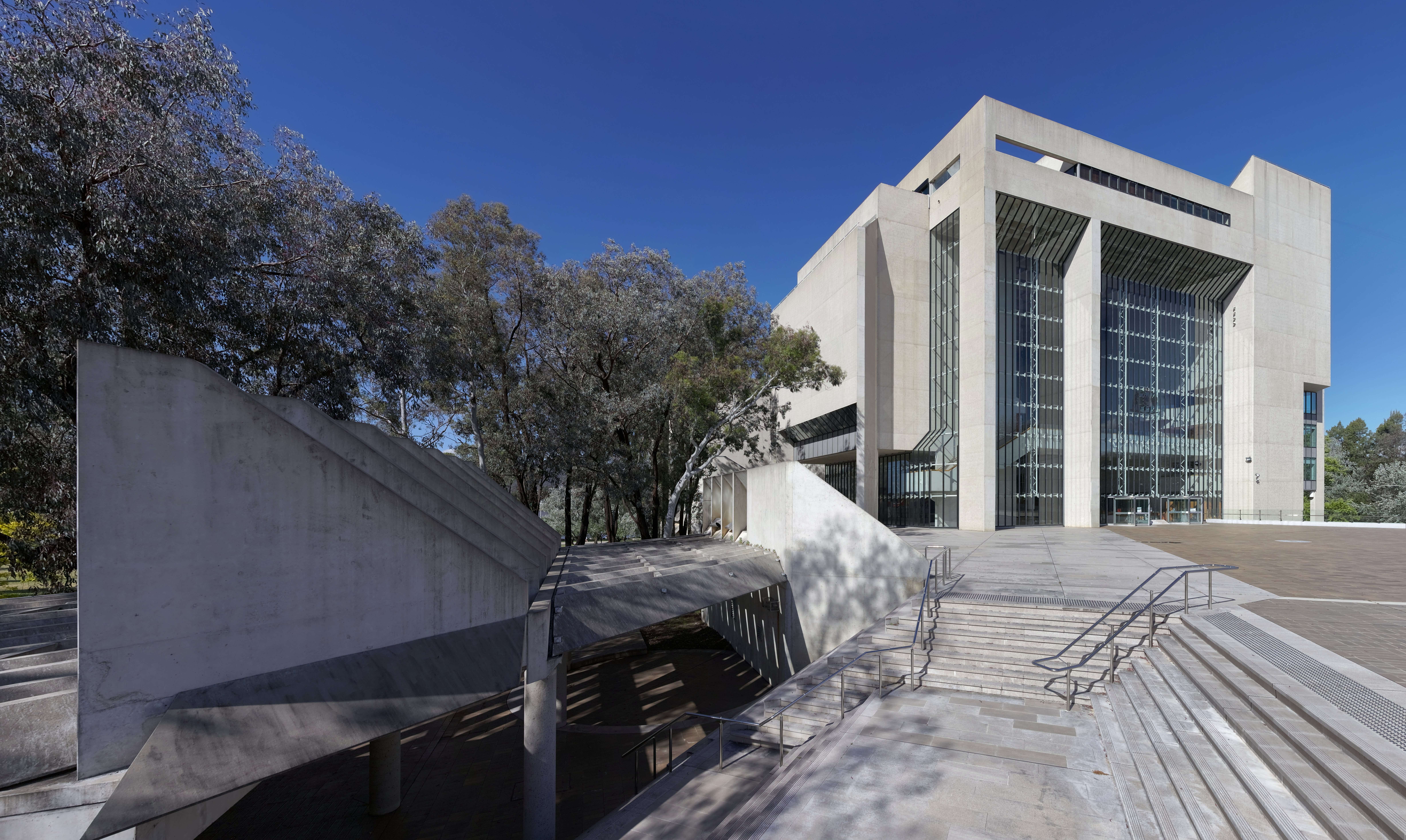 The High Court of Australia, in Canberra ACT, is an unusual and distinctive structure, built in the brutalist style, and features a public atrium with a 24-metre-high roof. The building was completed in 1980. The High Court was added to the Australian National Heritage List in November 2007. This image was stitched from a series of six 24mm images, taken without the use of a pano-head.